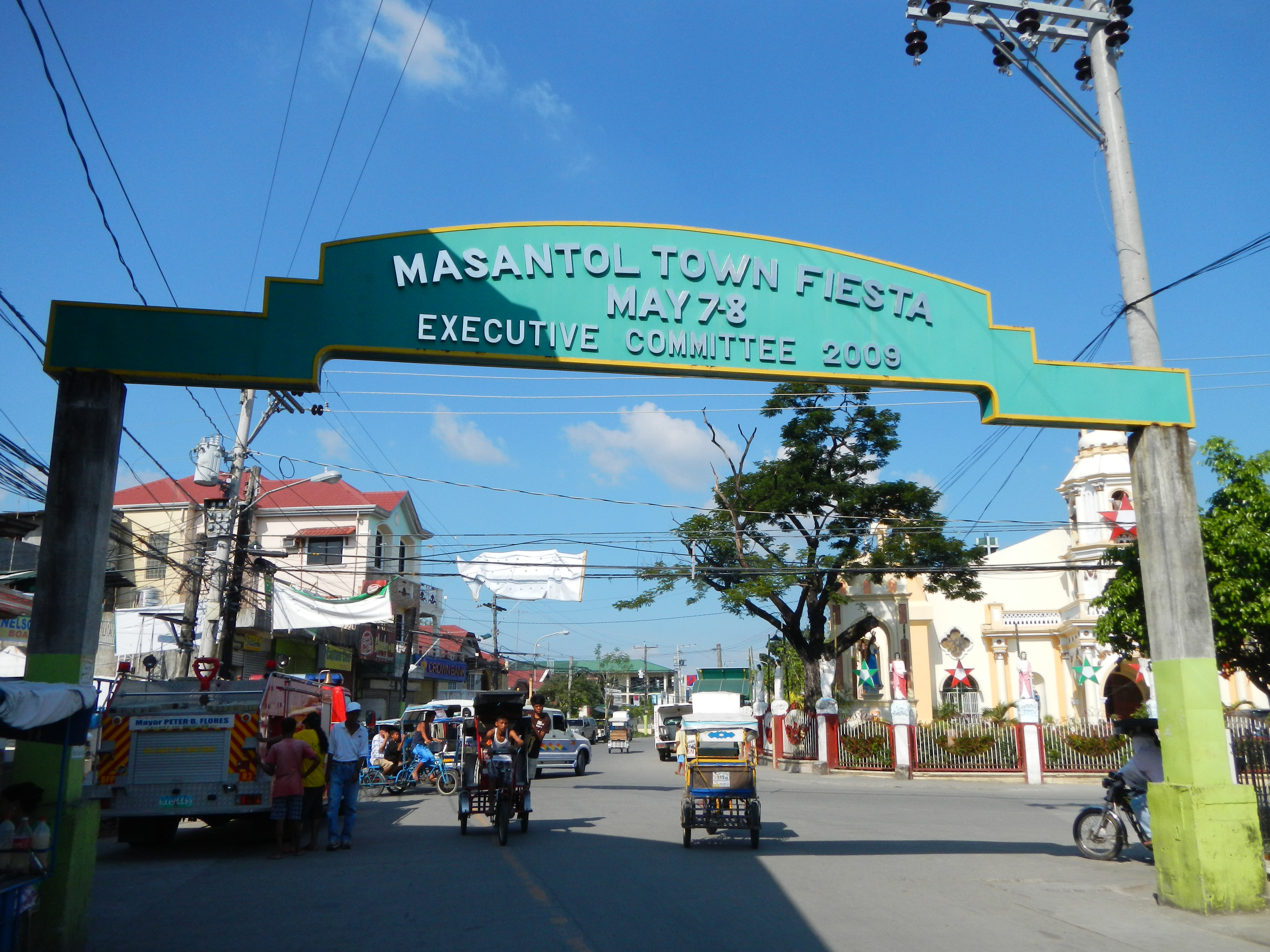 Masantol, Pampanga[1][2]